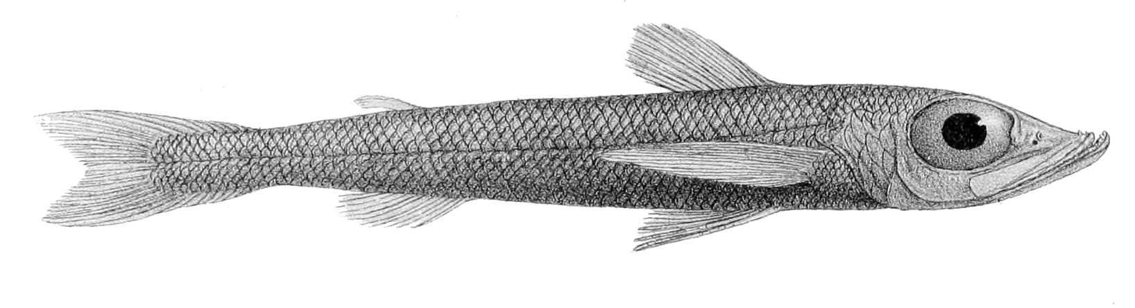 Chlorophthalmus agassizi